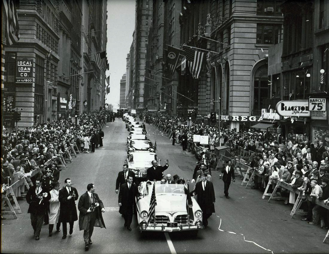 President Bourguiba receiving New York City's traditional welcome accorded to visiting dignitaries